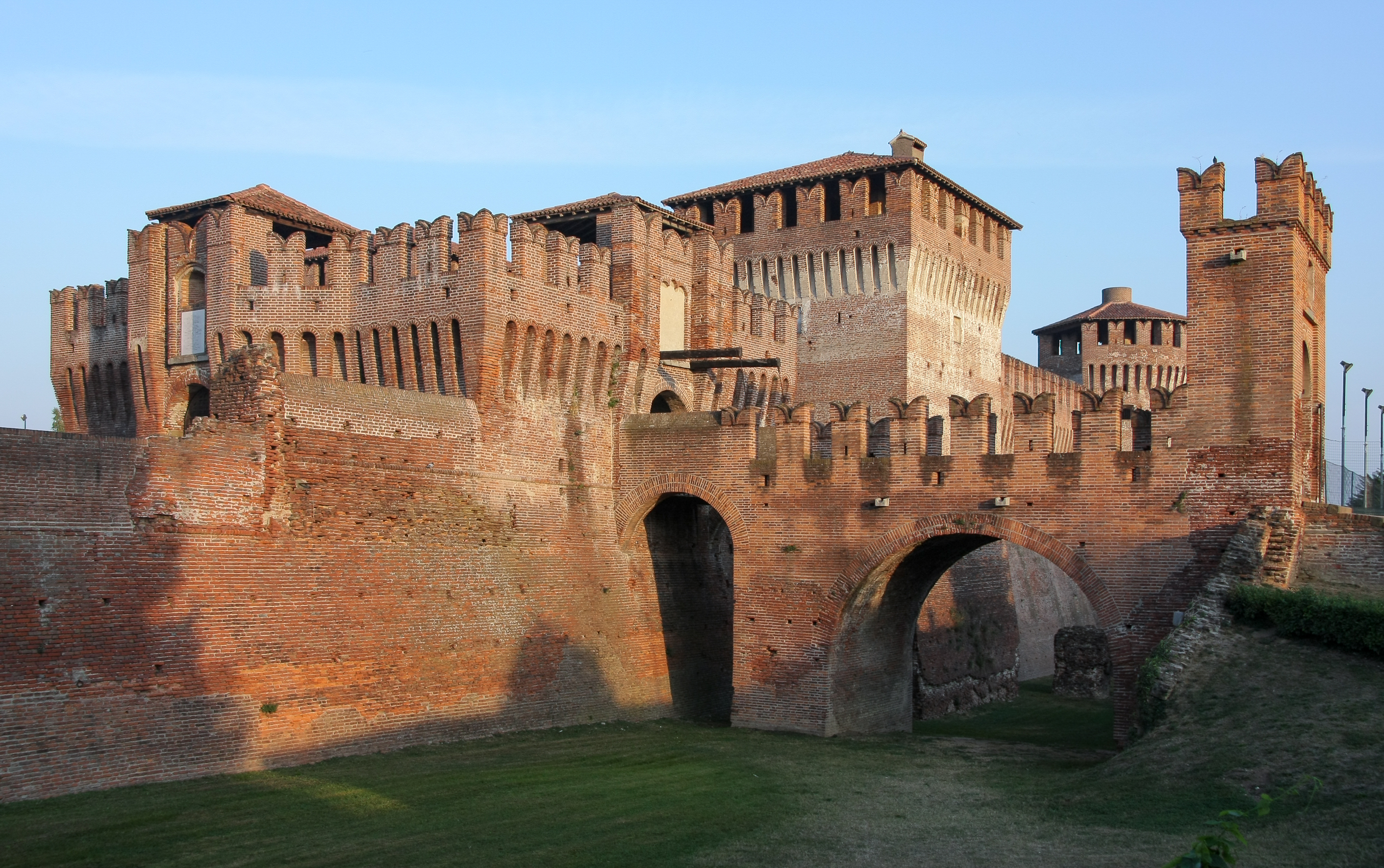 Castello di Soncino